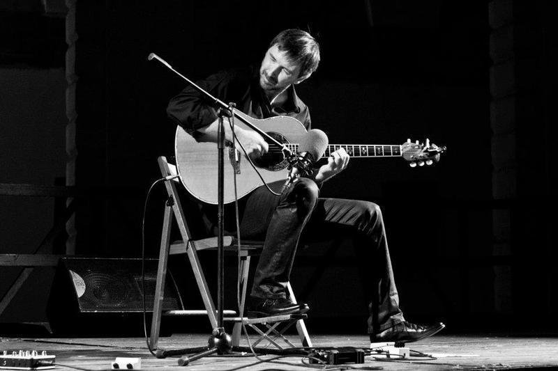 Marco porcu on stage